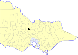 Location of the City of Bendigo within Victoria.